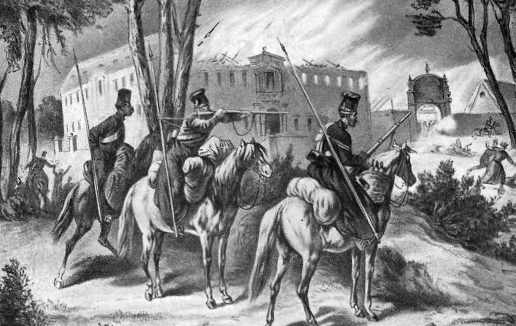 Russian army looting and raping Miechów during January Uprising